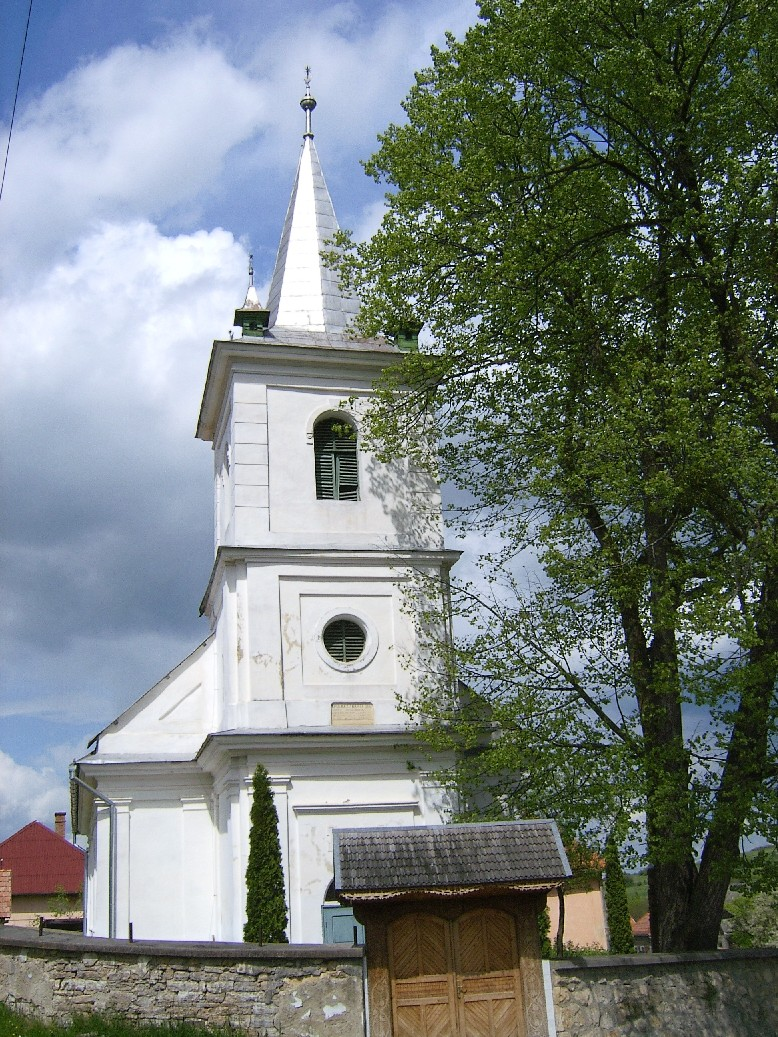 Reformed church in Nearşova, Cluj County, Transylvania, Romania